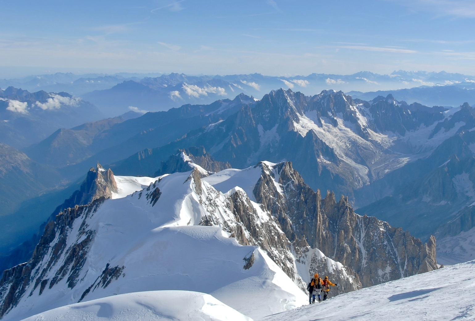 Mont Blanc: View to the North from the Summit